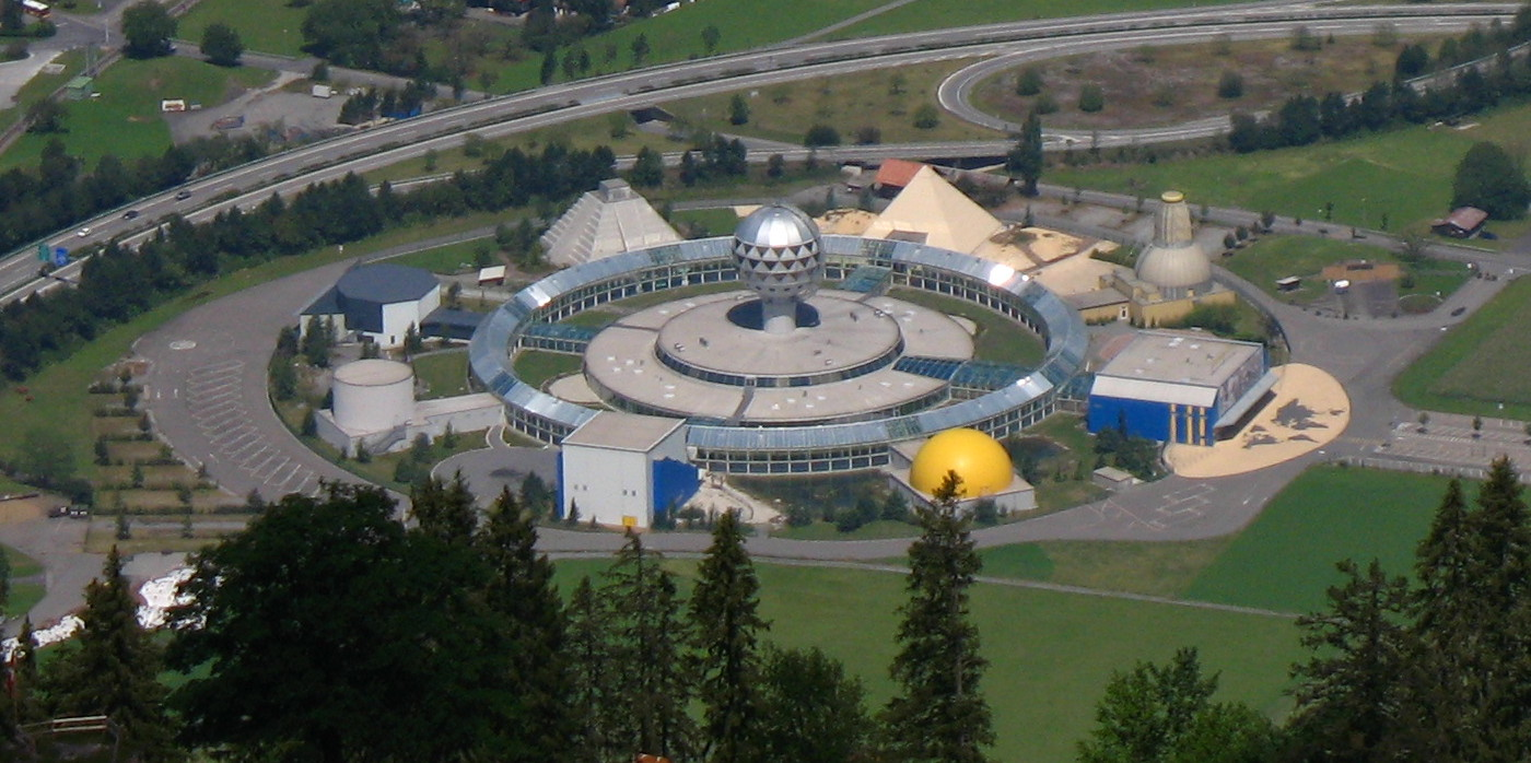 Interlaken, Goldswil, Mystery Park, and the A8 viewed from the Schynige Platte Railway, Switzerland